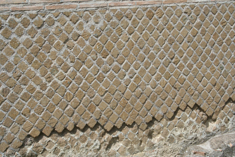 Opus Reticulatum on the exterior wall of Hadrian's Villa, outside Tivoli, Italy. I took this picture on June 21, en:2006 when I toured Hadrian's Villa for my archaeology class.